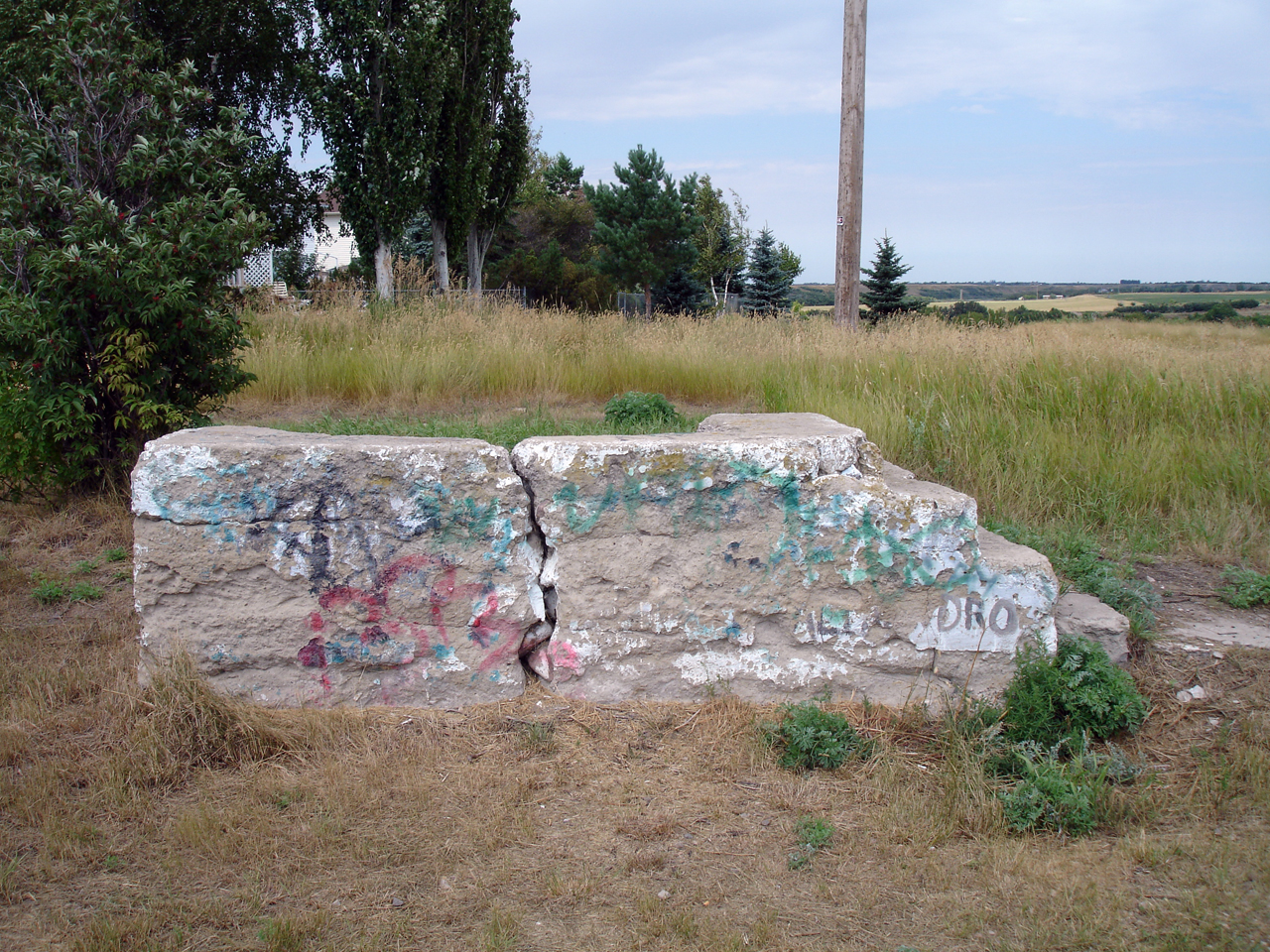 The eroded foundation of the Silverwood Barn in the neighbourhood of Silverwood Heights, in the city of Saskatoon, Saskatchewan, Canada.